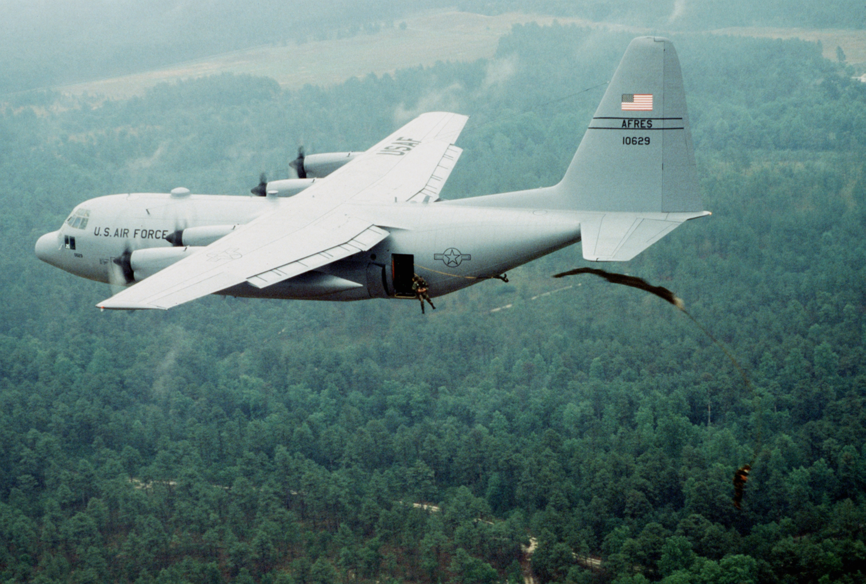 A U.S. Air Force Lockheed C-130H-LM Hercules (s/n 81-0629) from the 700th Airlift Squadron, 94th Airlift Wing, U.S. Air Force Reserve, based at Dobbins Air Force Base, Georgia (USA), dropping U.S. Army paratroopers during the "Rodeo 92" airdrop competition at Pope Air Force Base, North Carolina (USA).